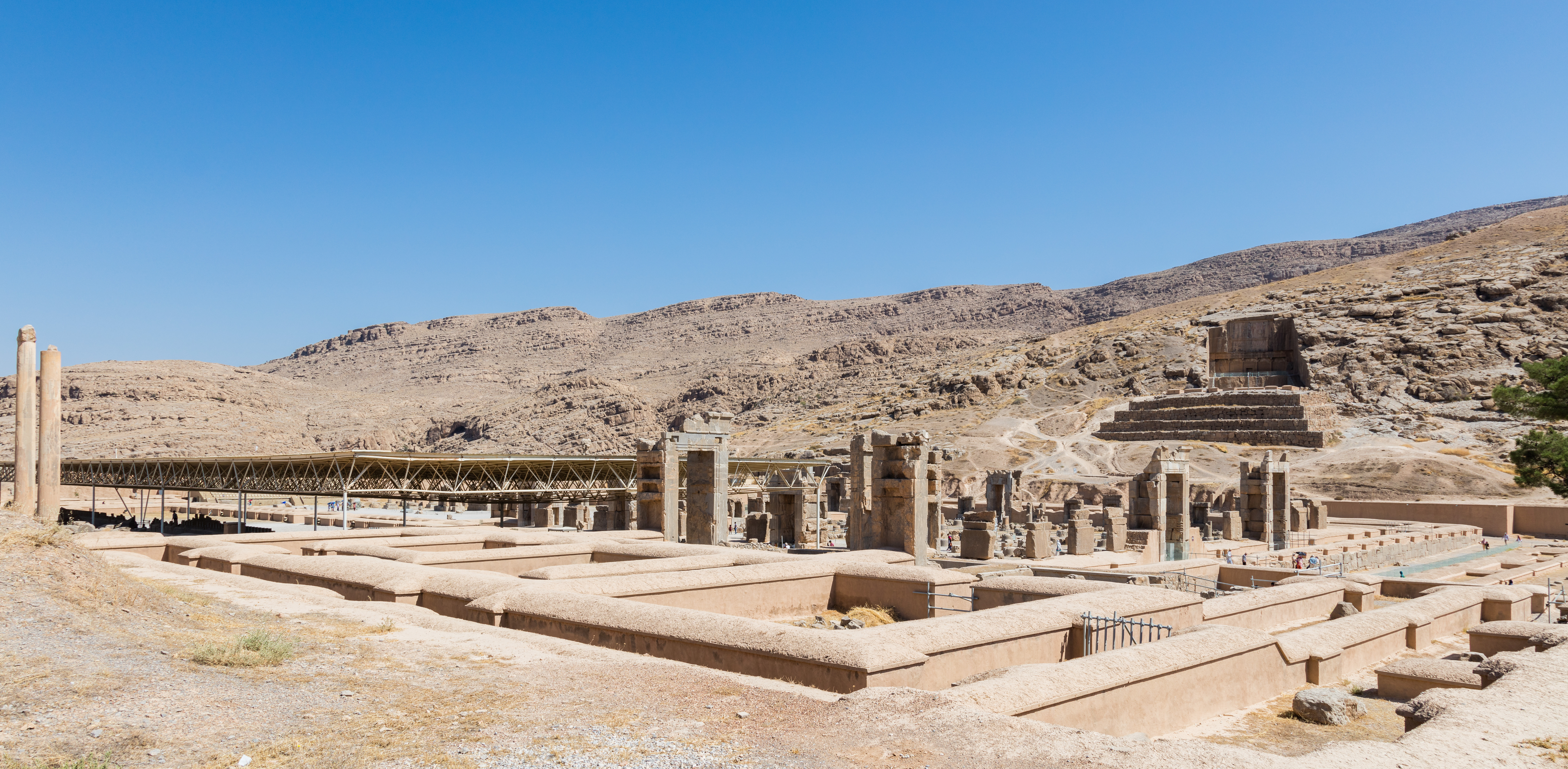 Persepolis, Iran